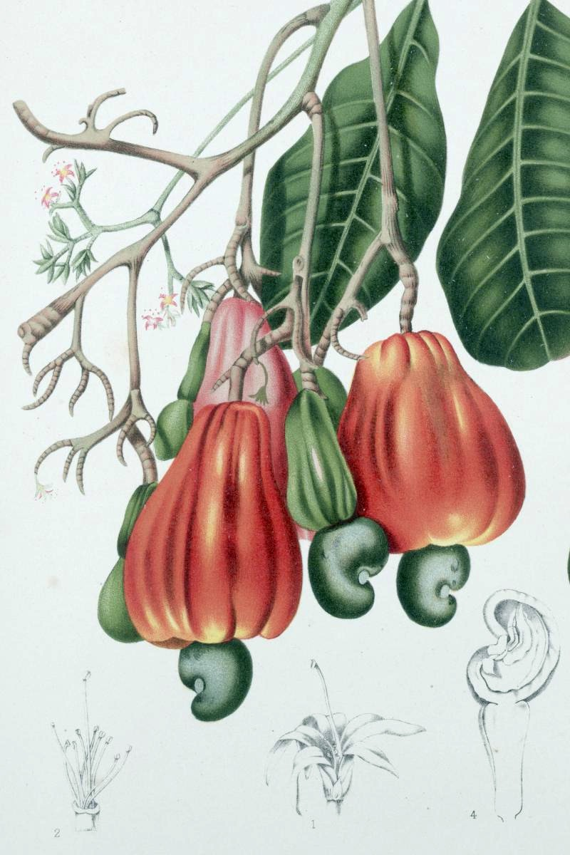 Anacardium occidentale L. from "Fleurs, Fruits et Feuillages Choisis de l'Ile de Java" [Selected Flowers, Fruit and Foliage from the Island of Java]